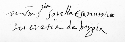 Signature of Lucrezia Borgia in a letter to her sister-in-law Isabella Gonzaga, March 1519. Reads: De V[ost]ra S[igno]ria sorella e servitrice Lucretia de Borgia, "Your Ladyship's sister and servant Lucretia de Borgia"